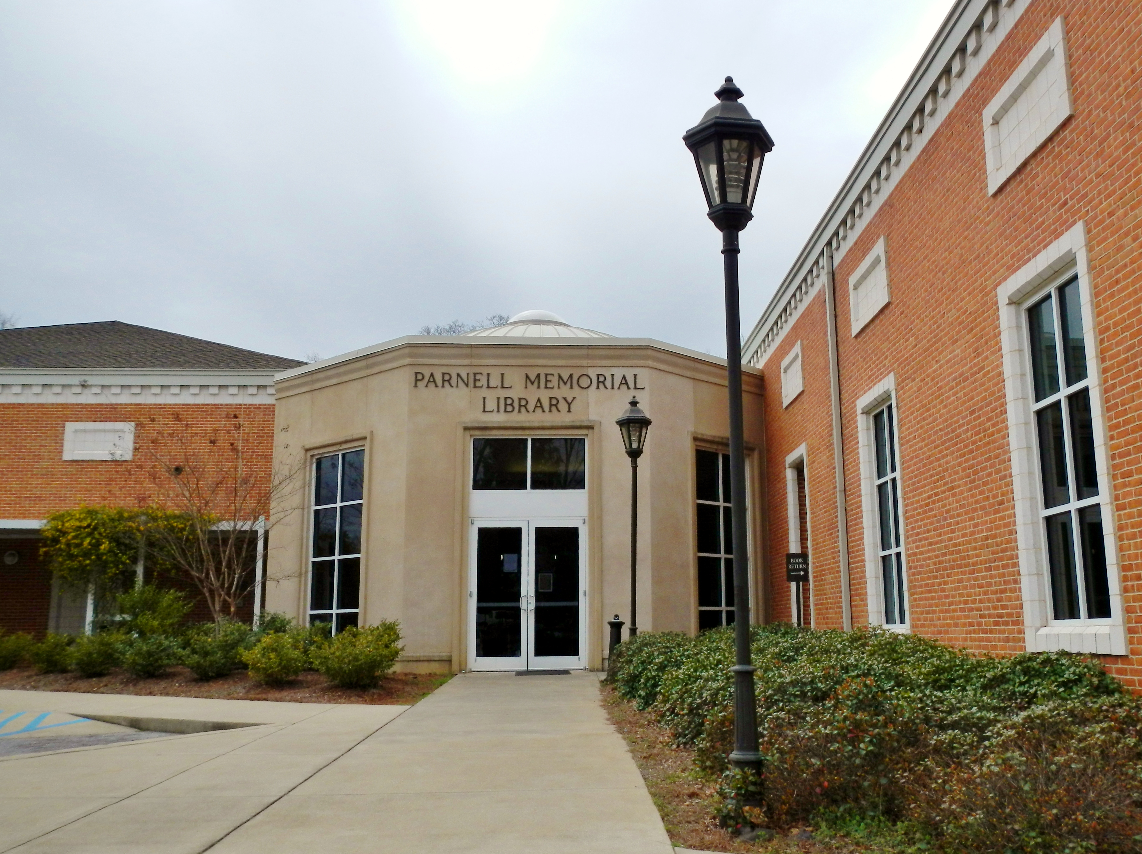 This is a photograph of the Parnell Memorial Library in Montevallo, Alabama.